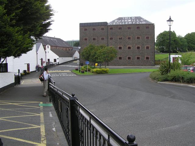 Old Bushmills Distillery Looking east